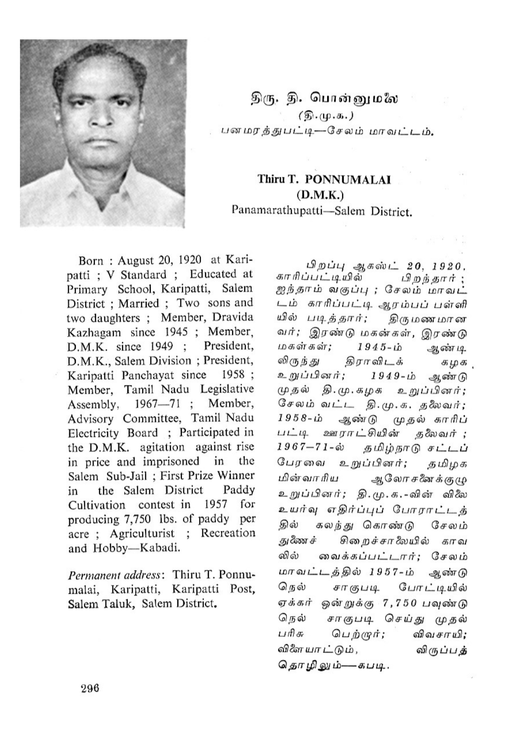 Ponnumalai photi